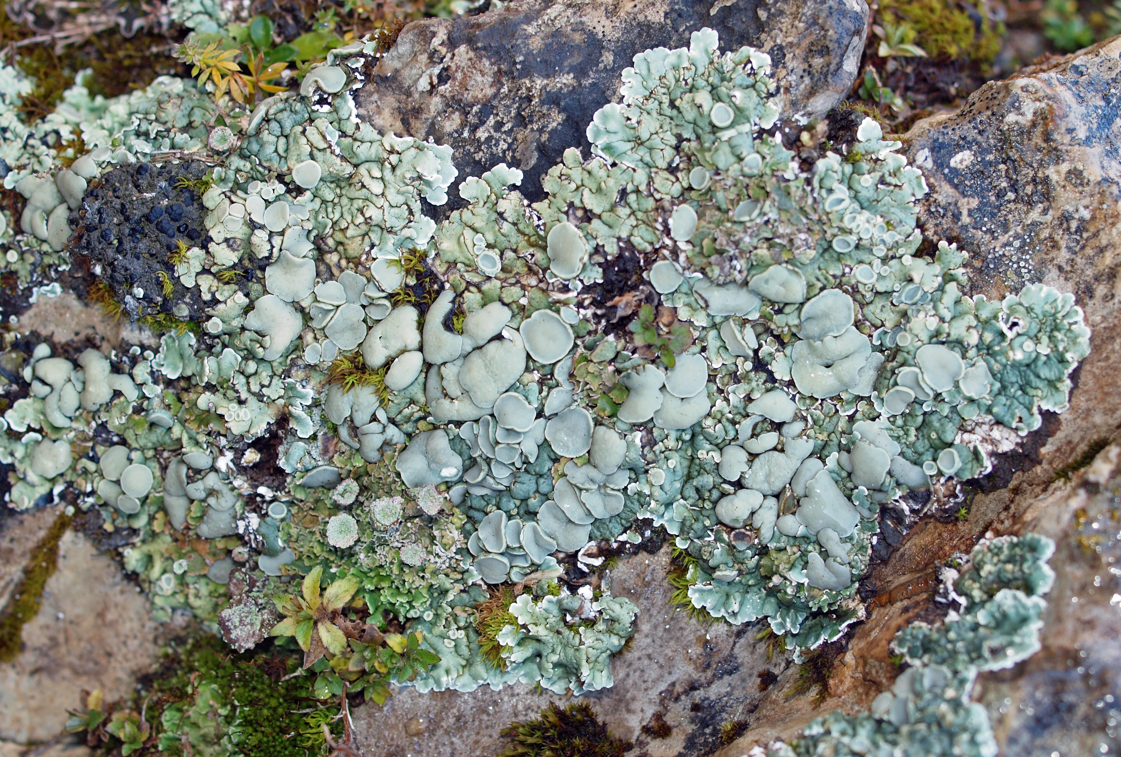 Squamarina gypsacea (Sm.)Poelt, Austria, Styria, Eisenerzer Alpen, Krumpenalm, on limestone.